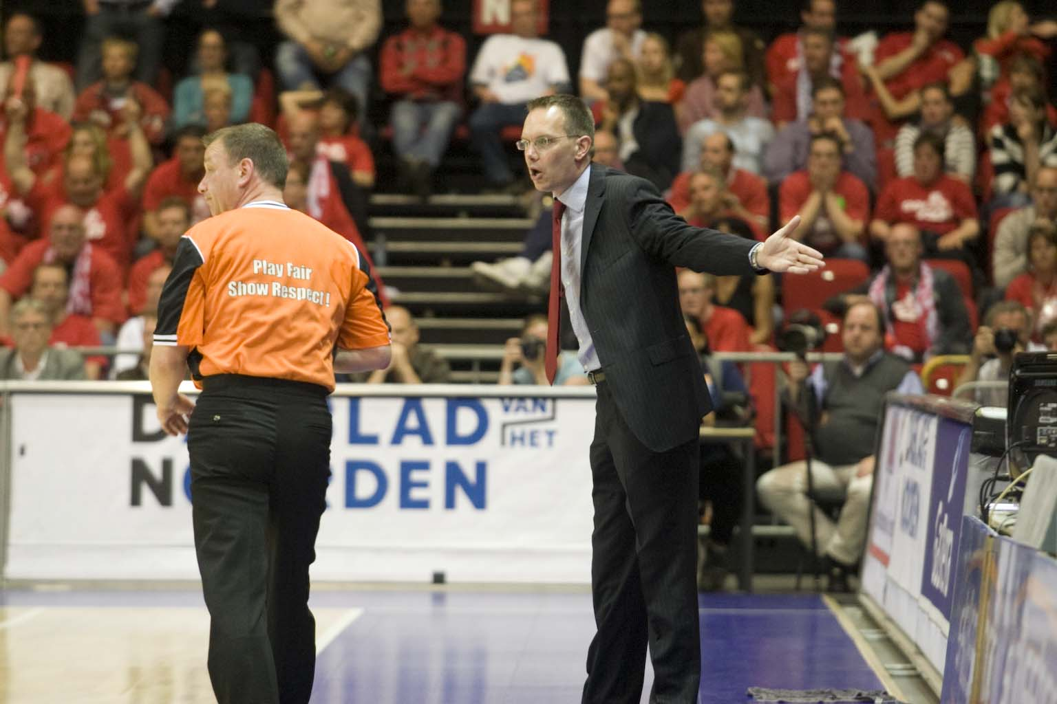 Erik Braal coaching West-Brabant Giants during the Finals of the Dutch Eredivisie in 2010.